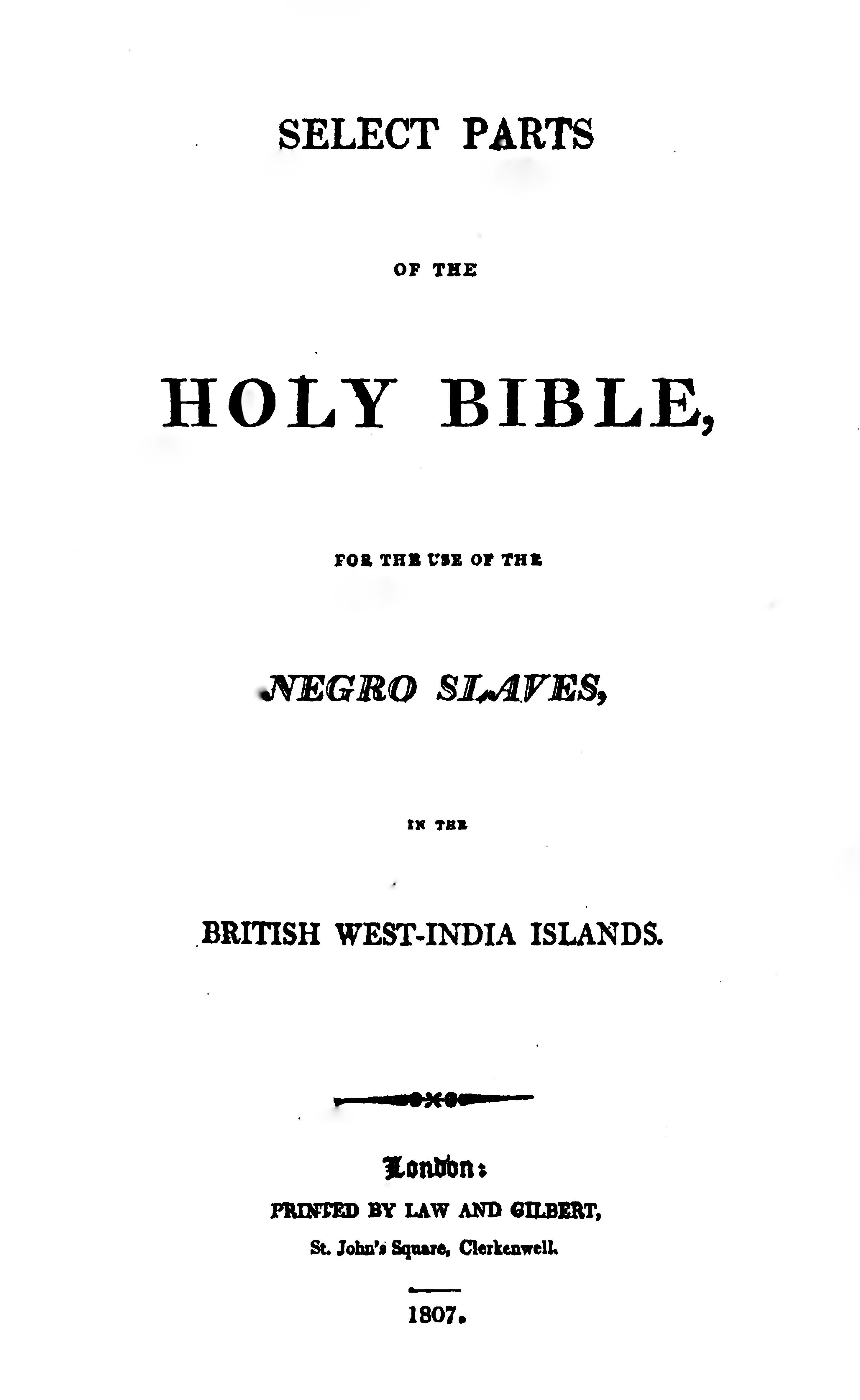 Bible printed for reading to slaves, London 1807. Passages such as the Book of Exodus are removed.